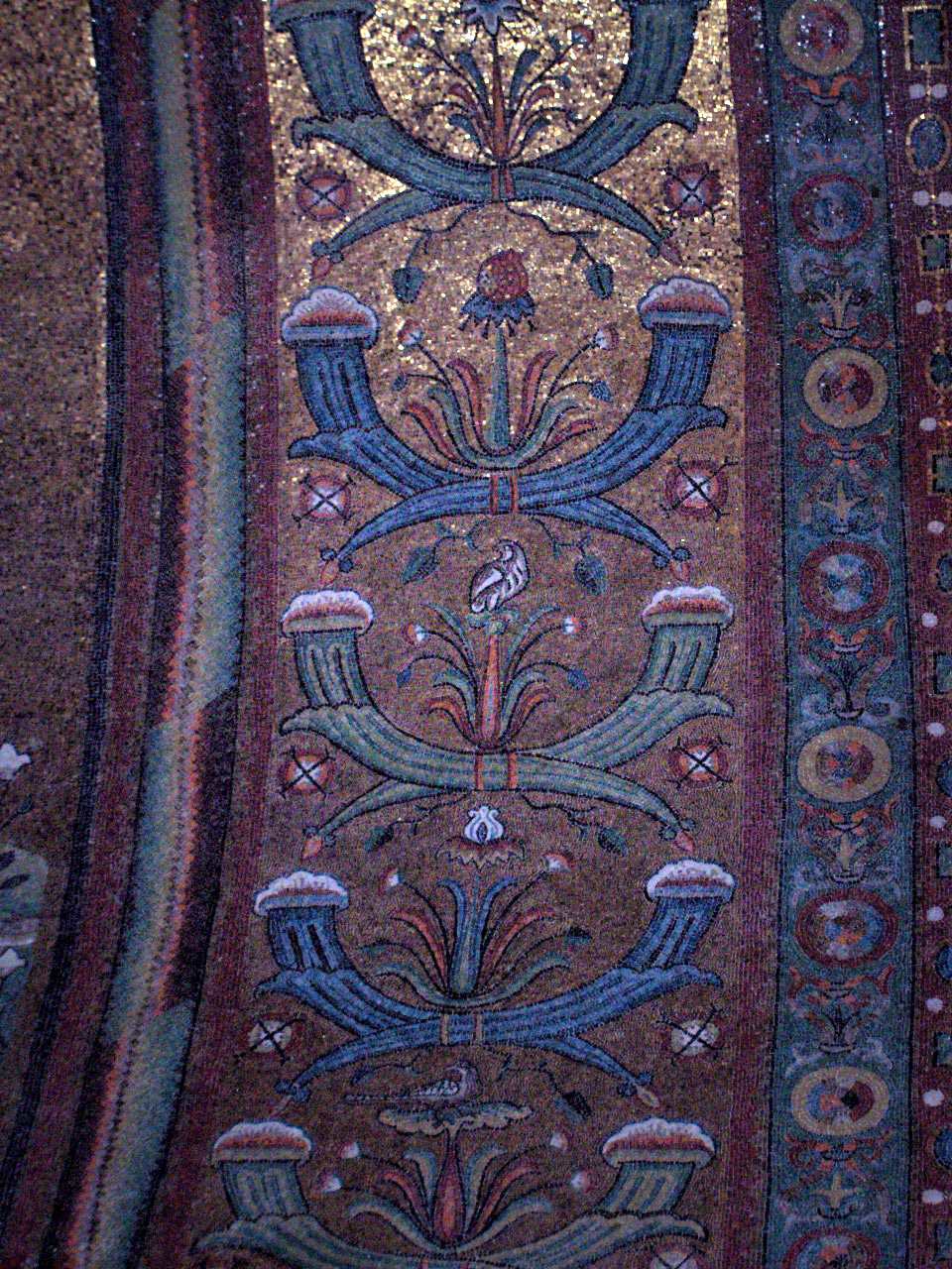 Intrados of an arch; Basilica of of San Vitale in Ravenna, Italy.